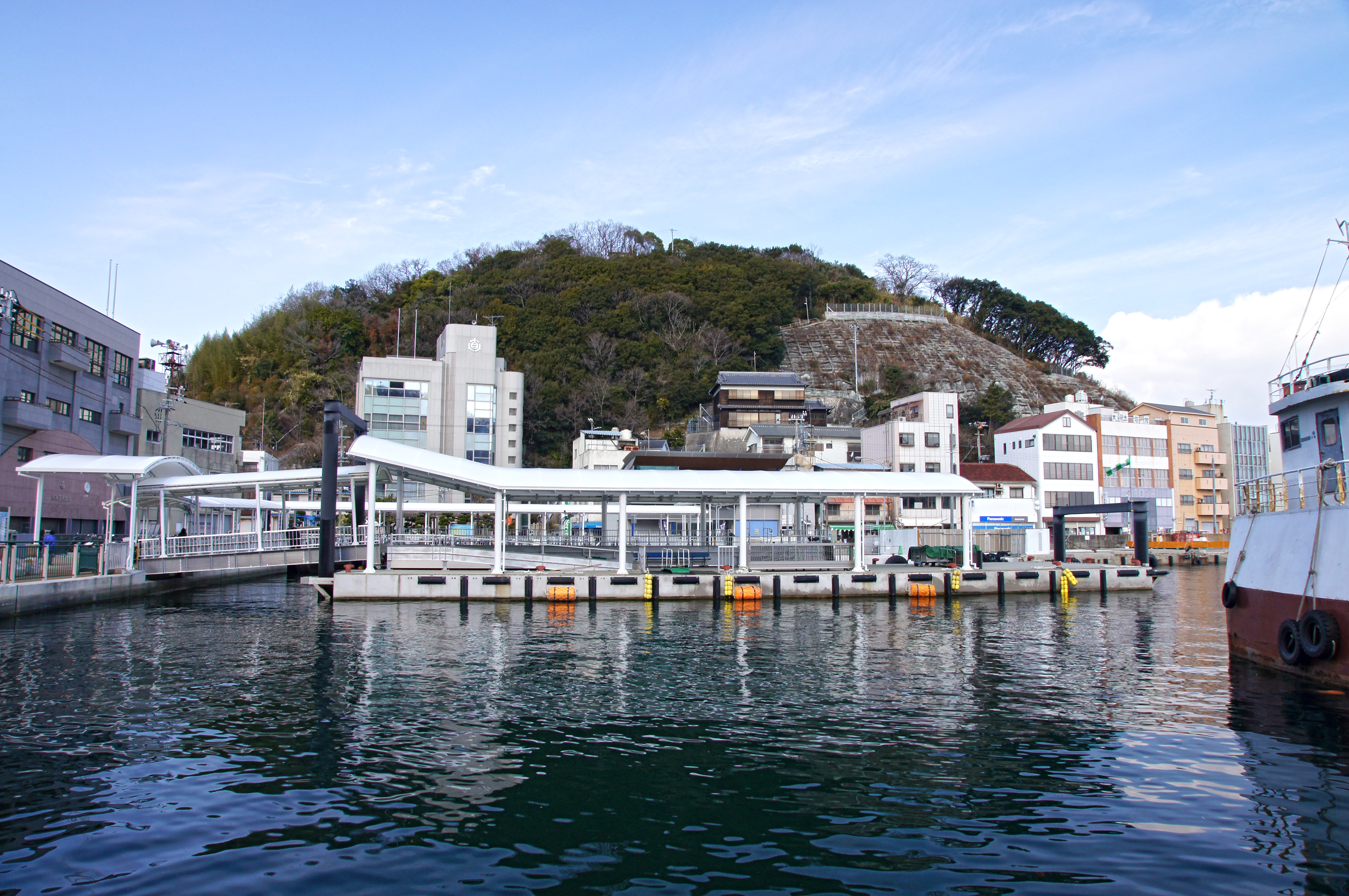 Maura_Port of Ieshima Islands in Ieshima Island, Himeji, Hyogo prefecture, Japan.